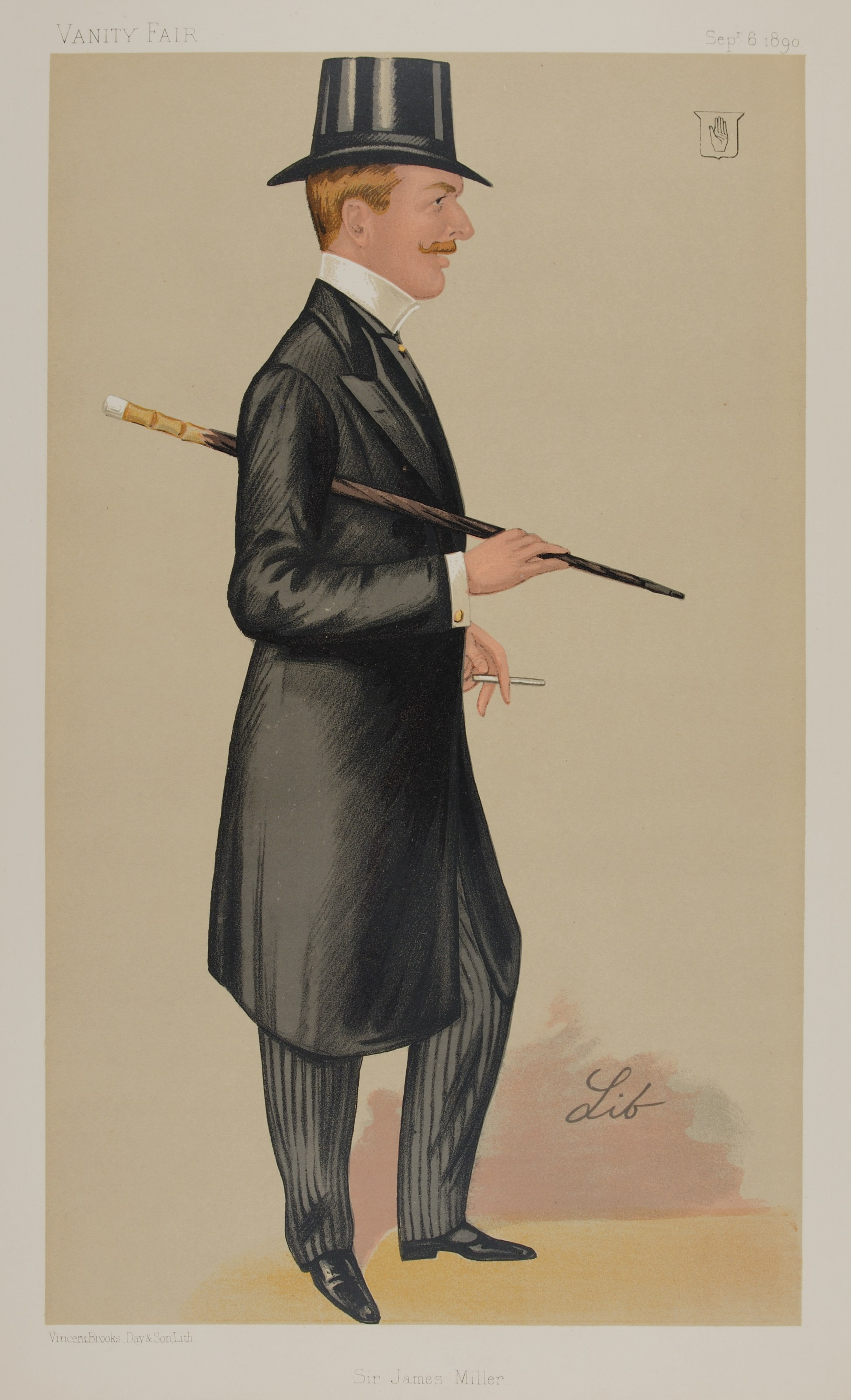 Men of the Day No. 481: Caricature of Sir James Percy Miller (1864-1906). Later 2nd Baronet. Later awarded DSO. Caption read: "Sir James Miller".